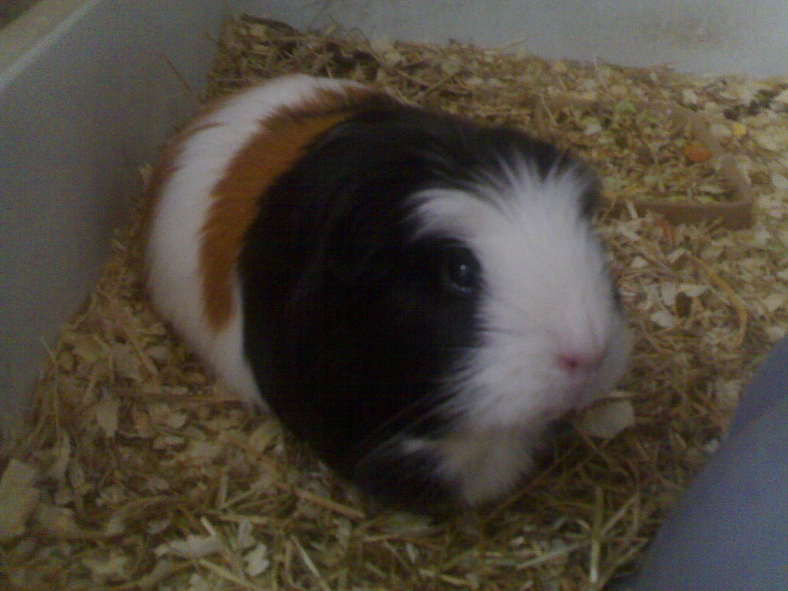 Domesticated Guinea Pig (Cavia porcellus) Taken by Ed Neave on 26th December 2005, uploaded 28th January 2006.